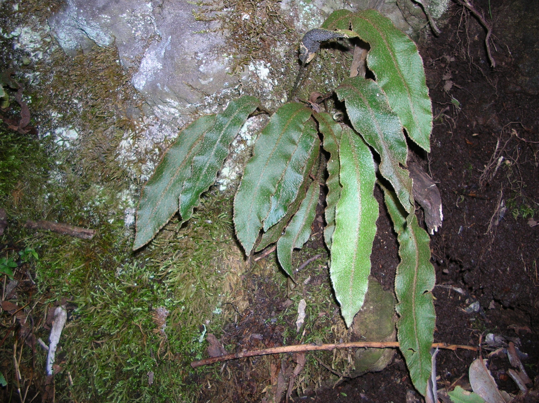 Elaphoglossum paleaceum (habit). Location: Maui, Puu Nianiau